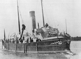 The CGS Petrel, built in 1892, patrolled the Great Lakes from 1892 to 1904.